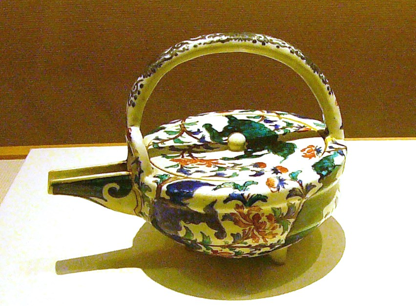 Ewer with design of lions and peonies, 7 5/8 inches(including handle), 2nd half of 17th century, National Culture Agency, Japan